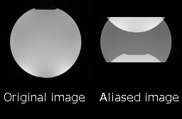 Aliasing artifact in MRI